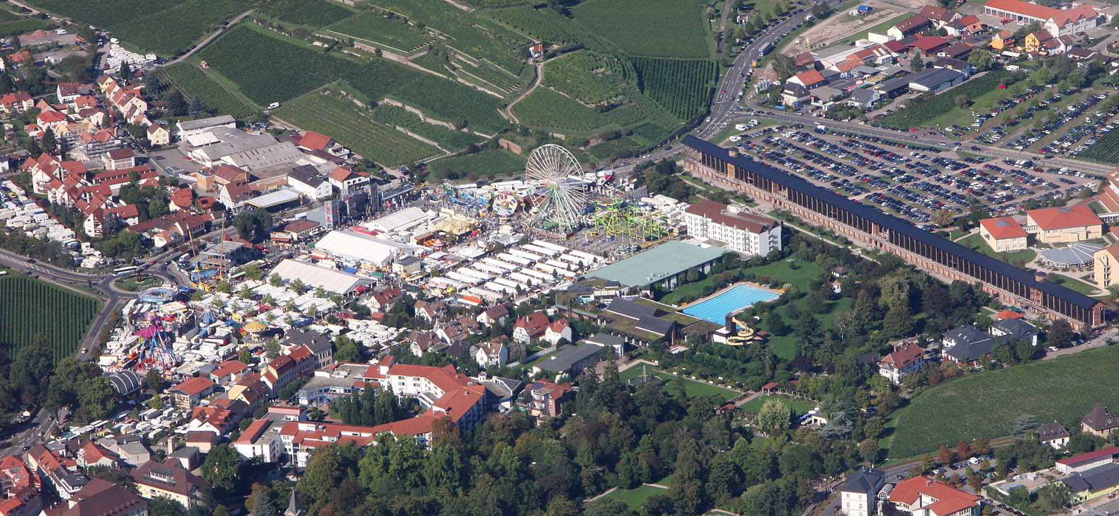 Wurstmarkt at Bad Dürkheim